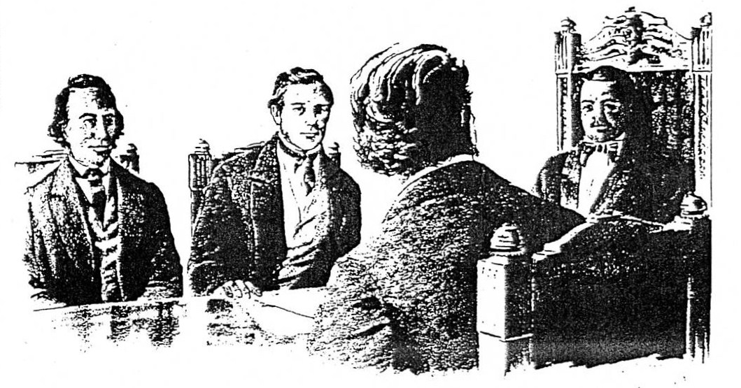 Kamehameha III conveys with Privy Council during the Paulet Affair. At left is William Richards and Gerrit P. Judd sitting across from Robert Crichton Wyllie. Note: Robert Crichton Wyllie was not present in Hawaii until after the Paulet Affair, so the identification of Wyllie is wrong.